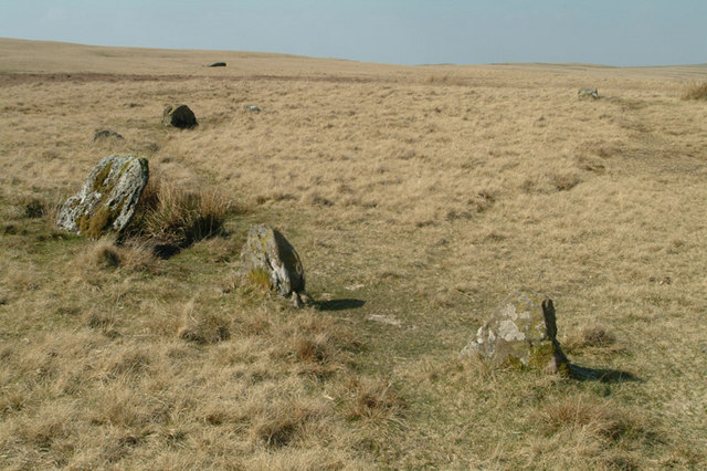 Nant Tarw Stone Circle. One of a pair of circles and a cairn on Nant Tarw.